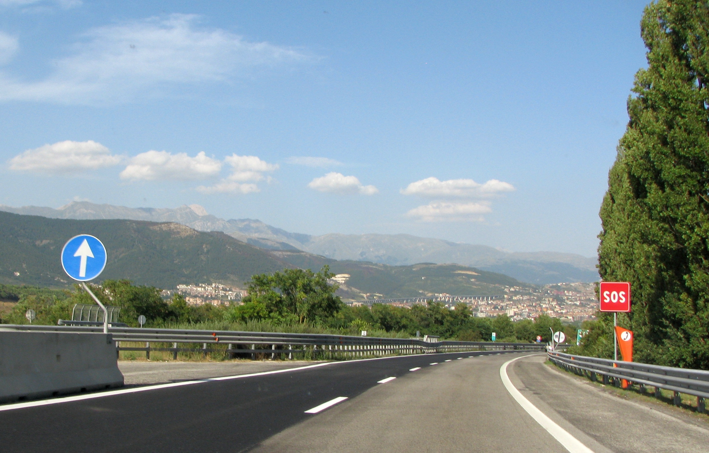 A24 Motorway, Italy, approaching L'Aquila